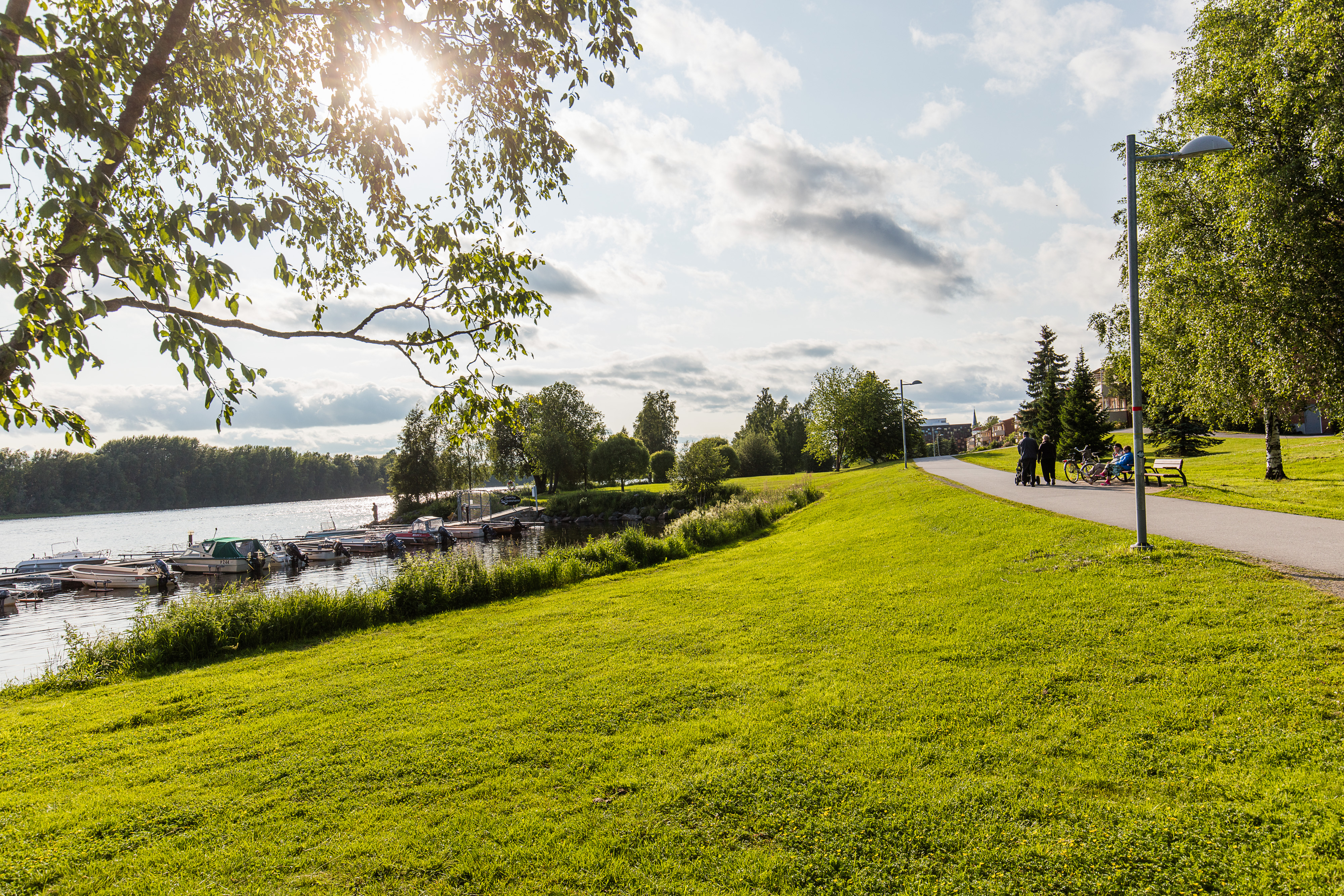 The Öbacka Marina, in the Öbacka park in central Umeå, are one of many marinas in the Ume River.